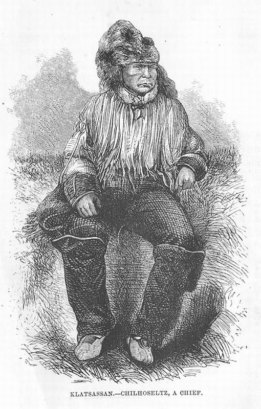 Klatsassin (Lhatŝ’aŝʔin), Tsilhqot’in chief. Hanged on October 26th 1864.